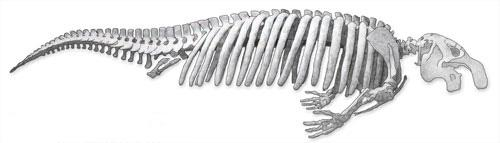 Metaxytherium subappenninum